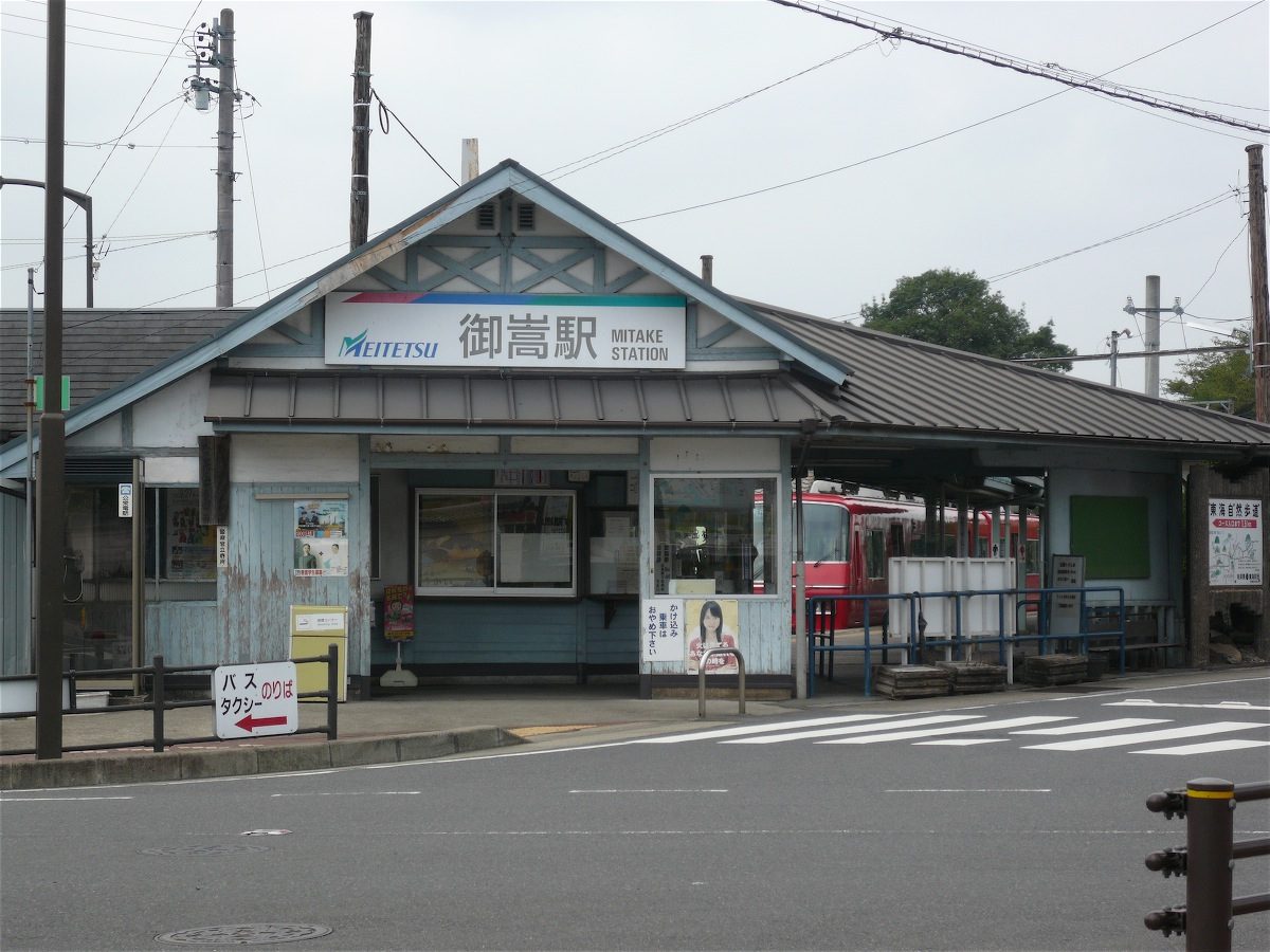 Mitake Station of Nagoya Railroad in Mitake, Gifu, Japan